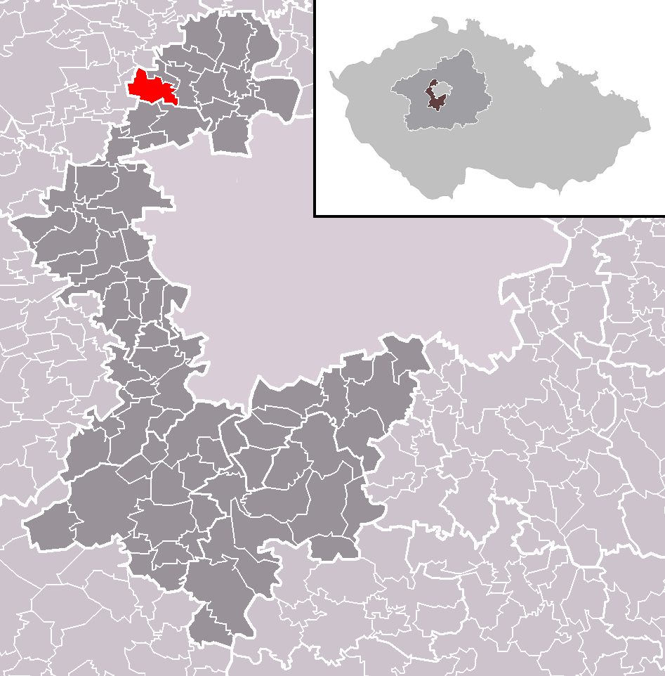 Location of Číčovice municipality within Prague-West District and administrative area of Černošice as a Municipality with Extended Competence.